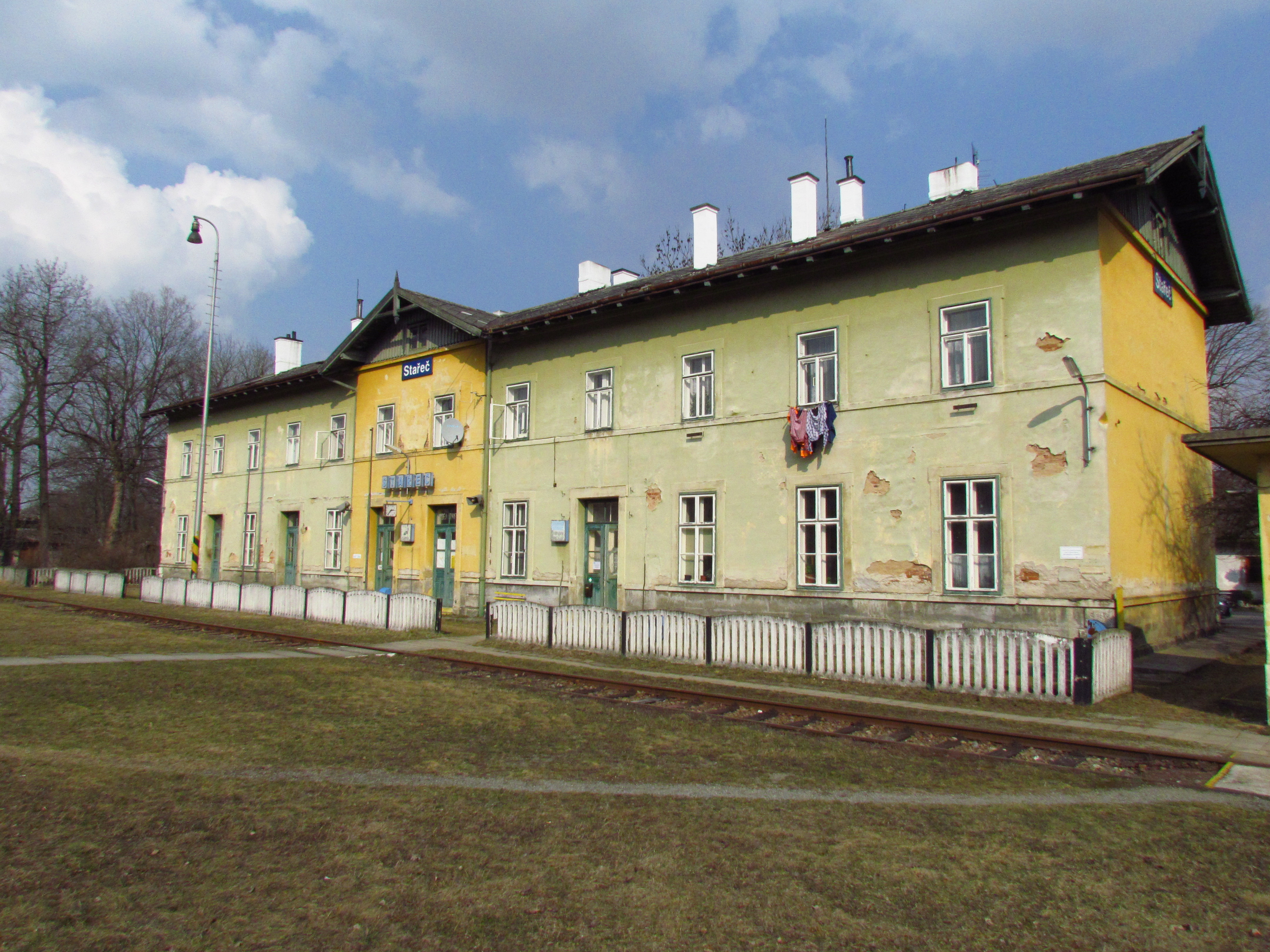 Railstation Stařeč near Stařeč, Třebíč District.